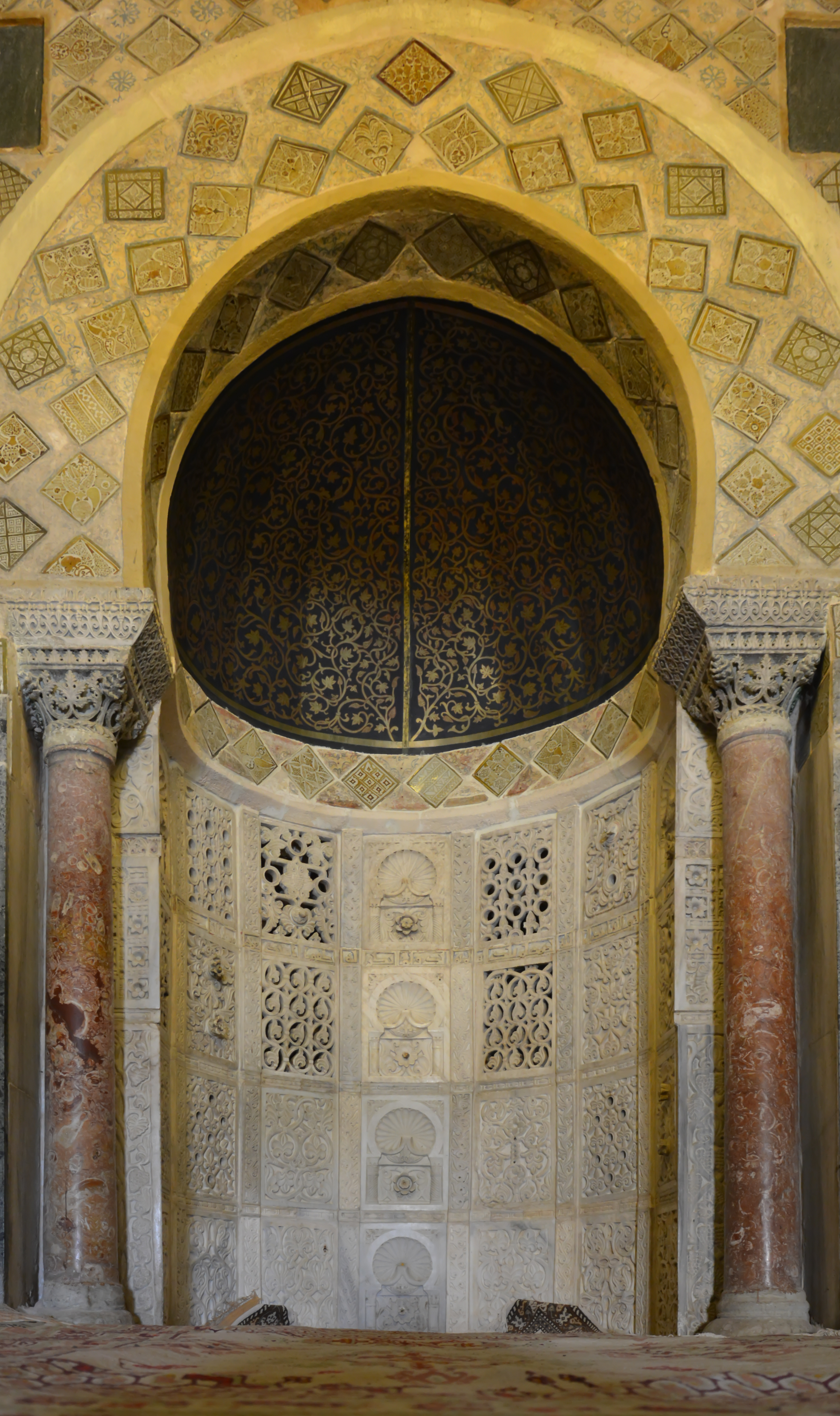 Close view of the mihrab of the Great Mosque of Kairouan.